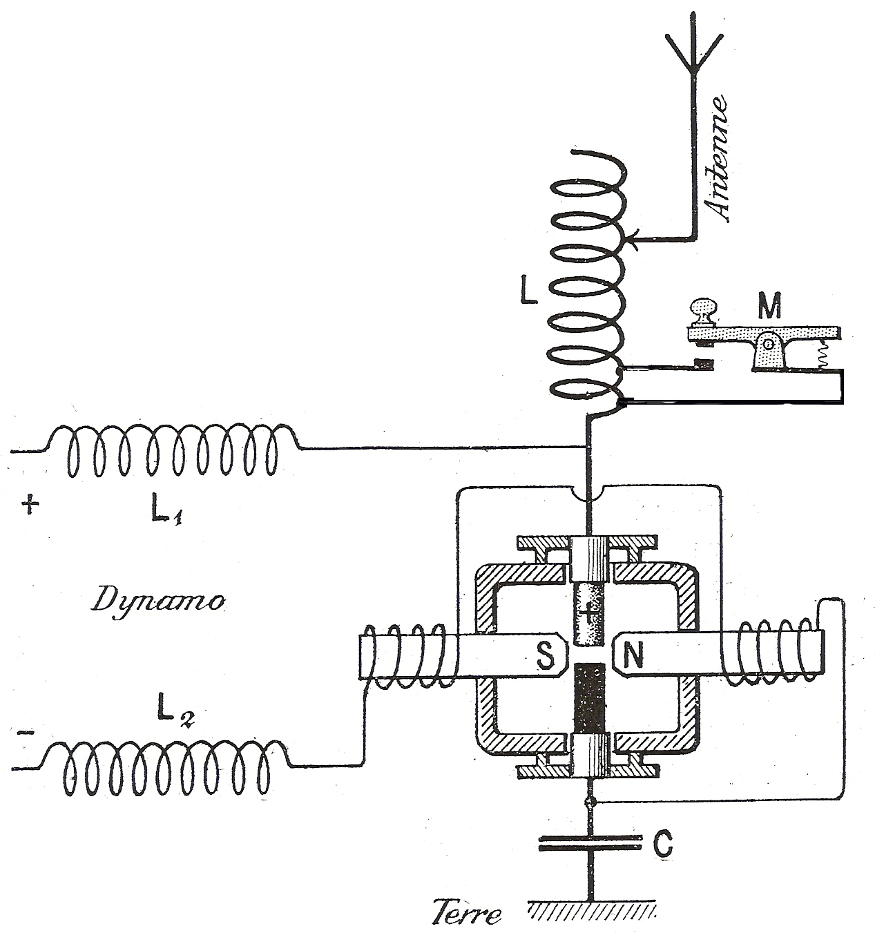 Principle of the spark-gap emitter